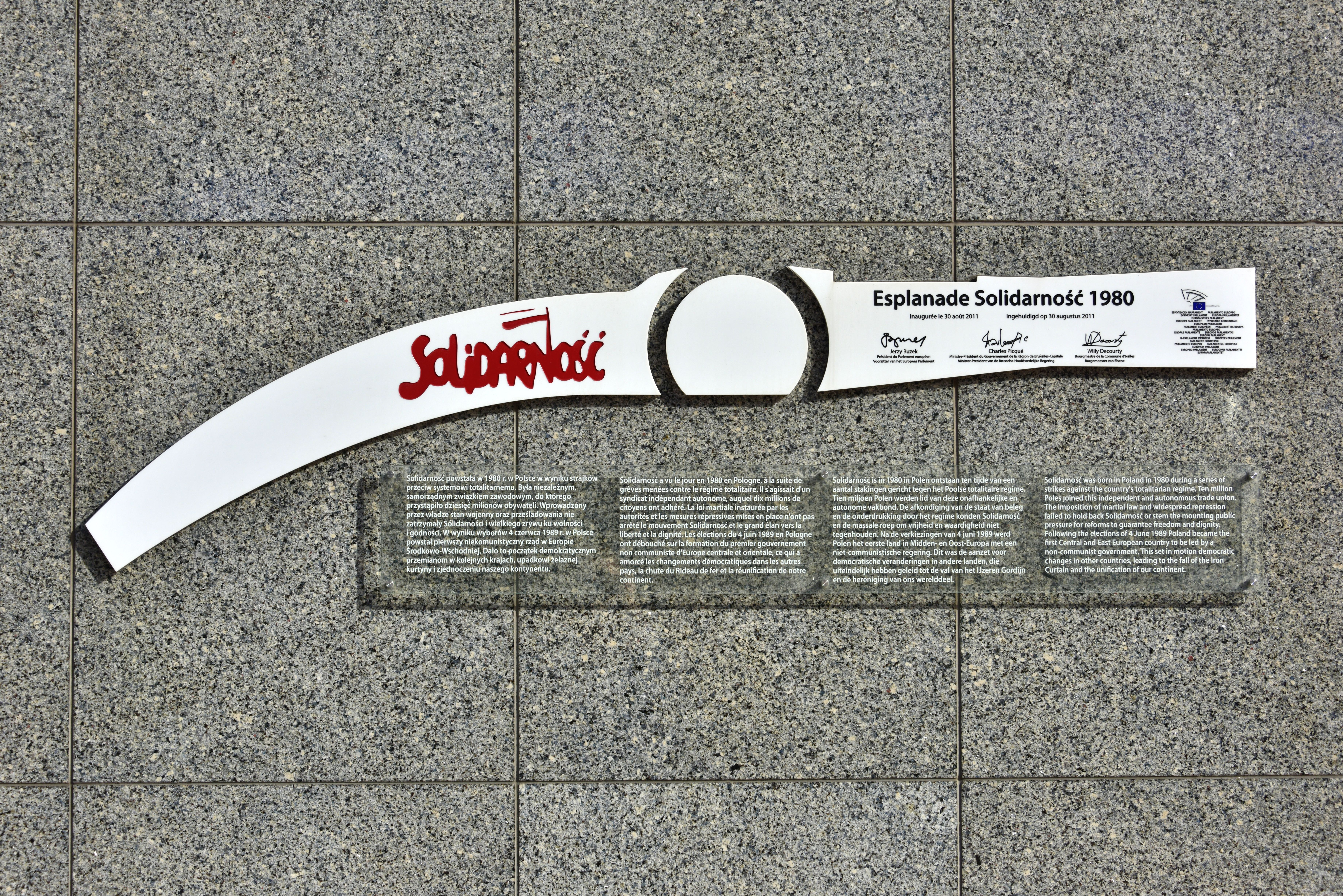 Esplanade Solidarność 1980 plaque, European Parliament in Brussels